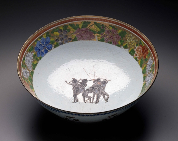 Punchbowl, enamelled porcelain. 17 x 44.8 x 44.8 com. Australian National Maritime Museum Collection. 'View of the town of Sydney in New South Wales', c 1820.